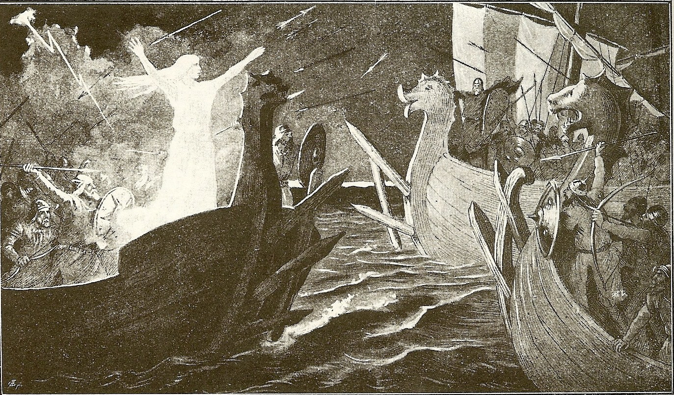 Artwork by Jenny Nyström (1854 - 1946), 1895.